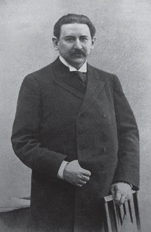 Middle aged gentleman, standing with moustache and chair